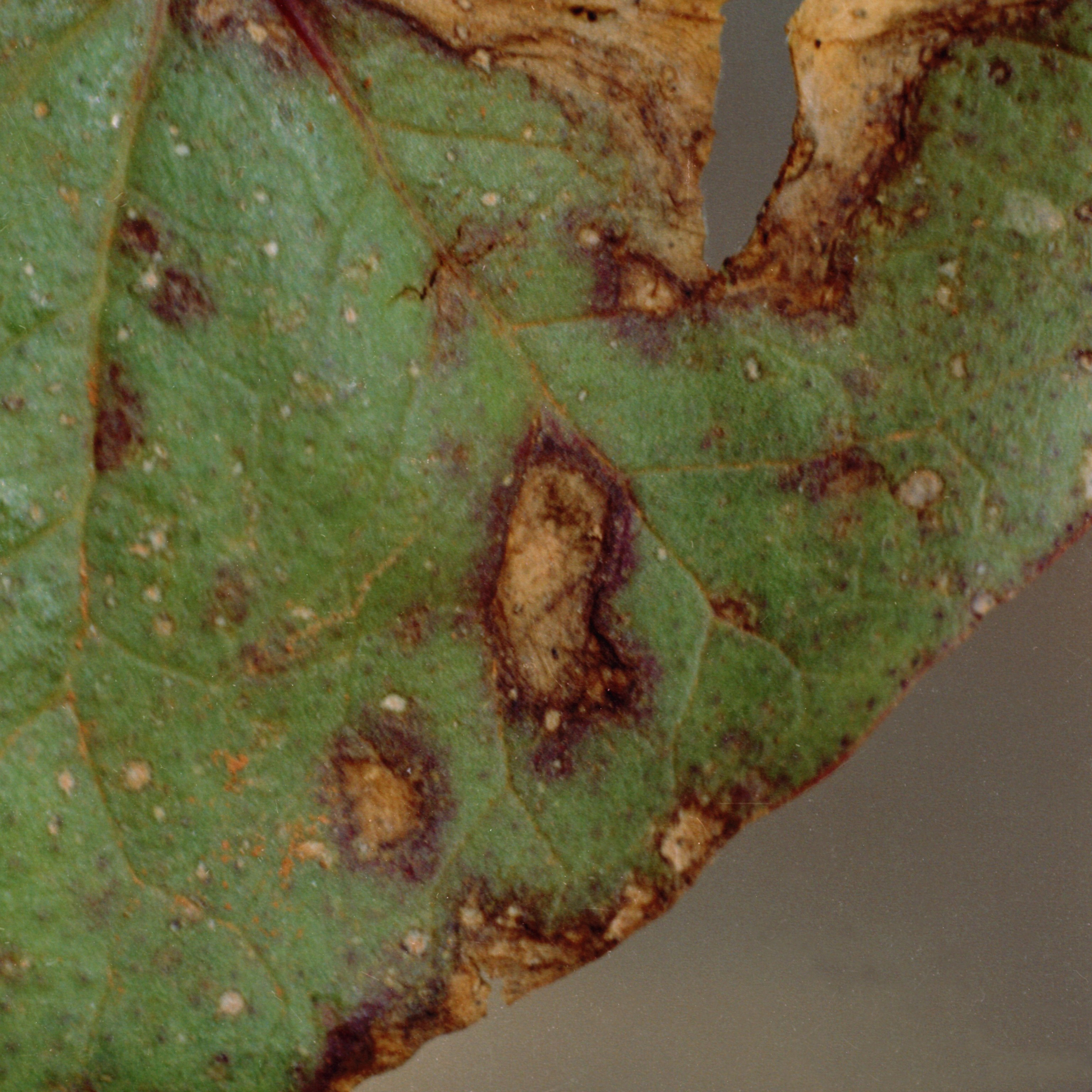 Phoma gossypiicola causing wet weather blight on cotton leaves